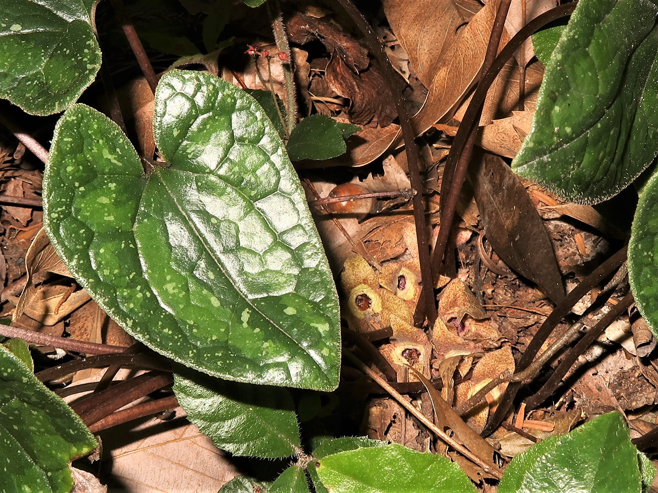 Asarum rigescensi, Tanabe city, Wakayama pref., Japan